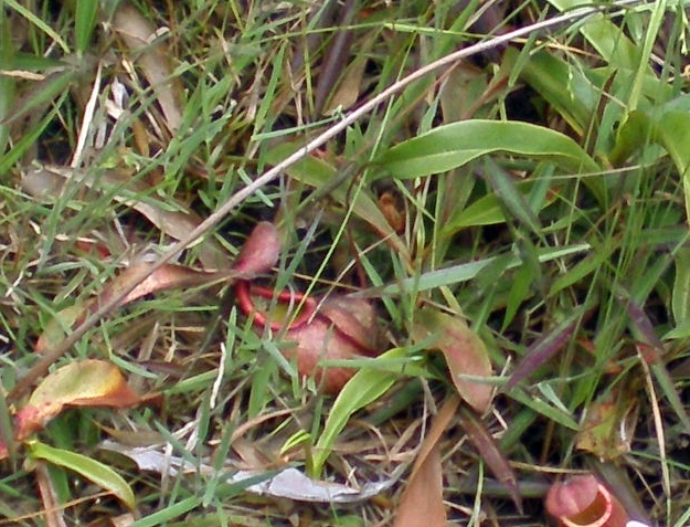 N. thorelii from near "Ta Cui MT" Binh Thuan province, Vietnam